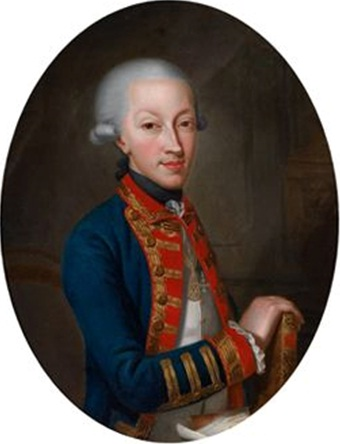 Caption from the auctioneers website (Turin before 1772-after 1792) Portrait of King Carlo Emanuele IV of Sardinia in a general’s uniform, decorated with the chain of the Annunciata order and the large cross of the order of St. Mauritius and Lazarus. As the eldest son of King Vittorio Amadeo III of Sardinia, Carlo Emanuele inherited one of the largest Italian states on his accession to the throne, consisting of Nice as well as Sardinia and Piemont. As an avowed enemy of the French Republic, he had to surrender to French troops in 1798 and abdicate. All that remained to him was Sardinia. In 1799 Carlo Emanuele withdrew to Rome where he resided in the Palazzo Colonna, which today houses the Dorotheum in Rome. On the death of his wife, the French princess, Marie Clothilde, sister of King Louis XVI, Carlo Emanuele abdicated from the throne in favour of his brother, Vittorio Emanuele. As a widow he entered a Jesuit monastery and took the lower orders. As court painter to the Savoye dynasty, Giovanni Panealbo made many portraits of the family. After training with Pompeo Batoni, which is evident in his gently idealising classicism, he became the most prominent portrait painter at the Turin court. A very similar portrait of Carlo Emanuele is to be found in the Castello di Racconigi. We are grateful to Dr Clelia Arnaldi di Balme, Museo Civico, Turin, for the attribution of this painting to Panealbo. She informs us that there is a copy of this painting in the Palazzo Madama, Turin, (correspondence with the consignor dated 11.05. 2009). In the original classicing gilded frame dating from around 1780.